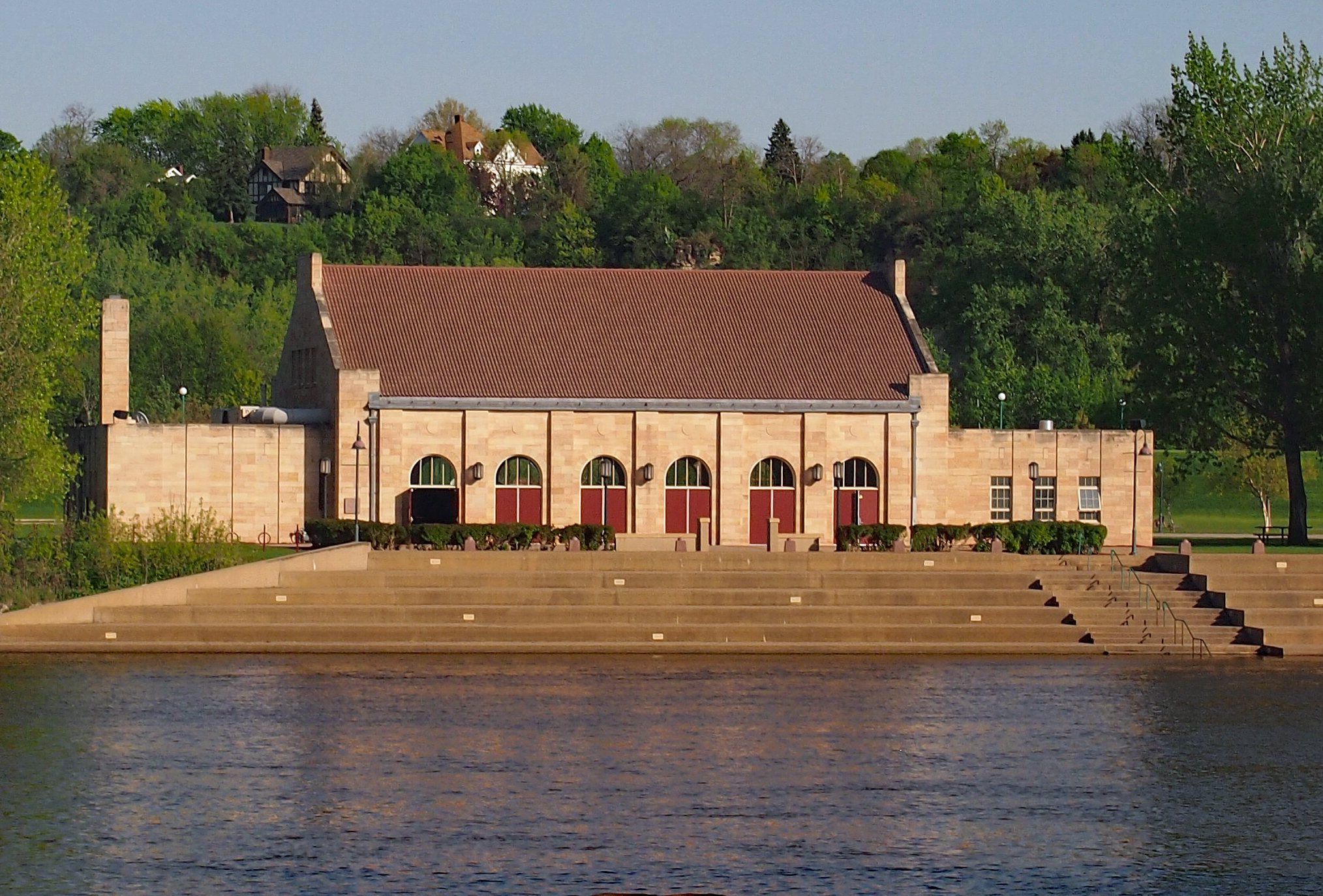 The Clarence W. Wigington Pavilion, Harriet Island Park, 200 Dr. Justus Ohage Blvd, St Paul, Minnesota, USA. Viewed from the Municipal Grain Terminal across the Mississippi River.